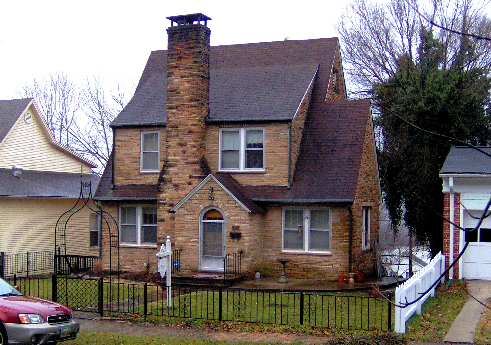 The Lewis-McCloud House (717 Clinton Avenue), built in 1927, in the NRHP-listed Cornstalk Heights Historic District of Harriman, Tennessee, USA.